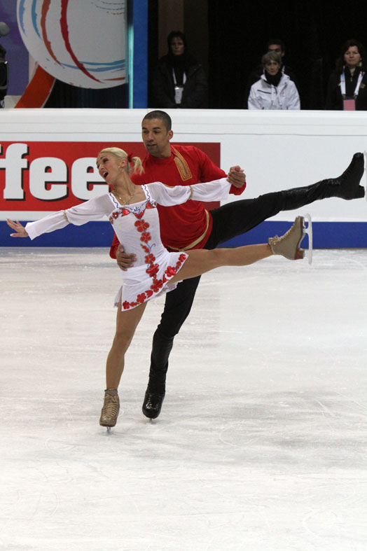 Aliona Savchenko / Robin Szolkowy at the 2011 European Figure Skating Championships.